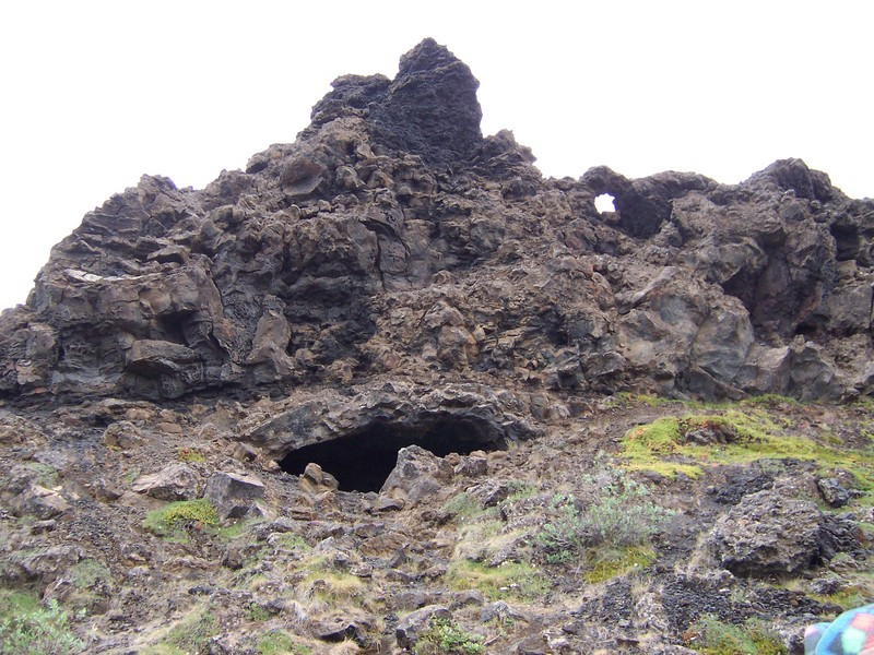 Dimmuborgir lava field in Iceland. Taken in July 2006 by me.